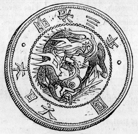 A Japanese silver one yen piece of 1870 (even though the file name says 1872, the coin says 明治三年, which translates to Meiji year 3, that is, 1870). "Weight .866, fineness 900. Value 4s 2d." Obverse shown